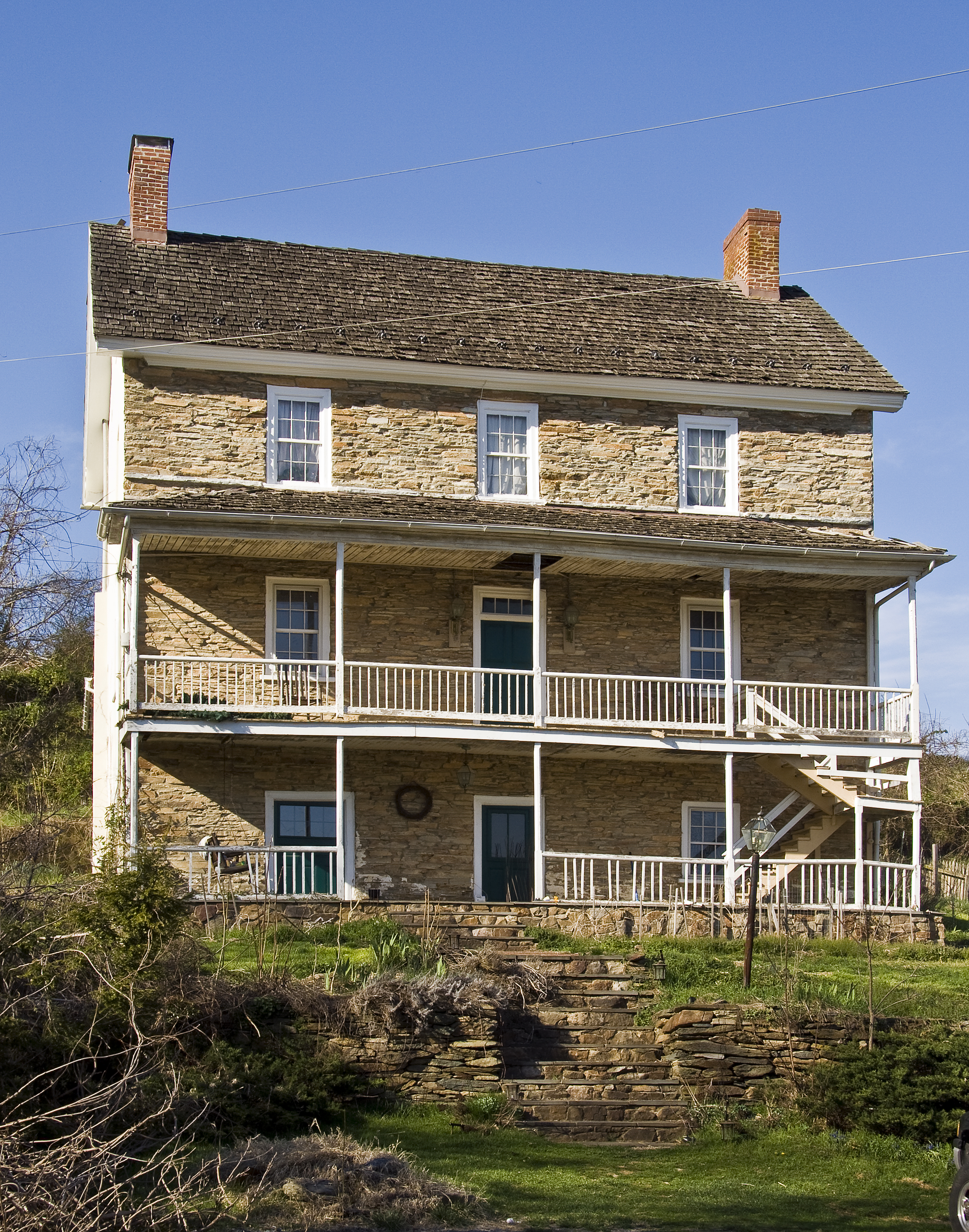 Bowlus Mill House near Middletown, Maryland, USA